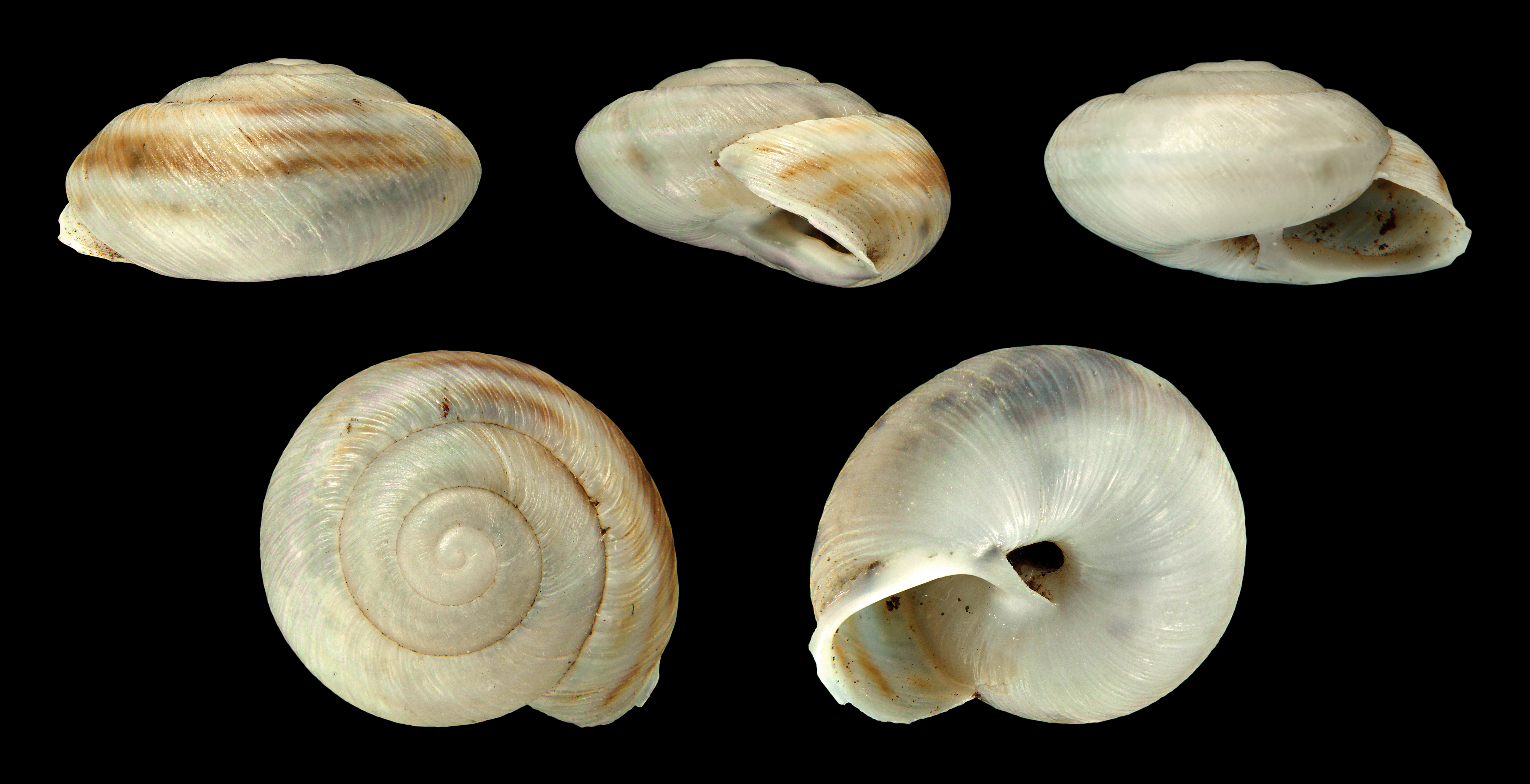 Diameter 1.5 cm; Originating from Masca, Tenerife, Spain, 28°18′11.98″N 16°50′24.57″W / 28.3033278°N 16.8401583°W ; Shell of own collection, therefore not geocoded.